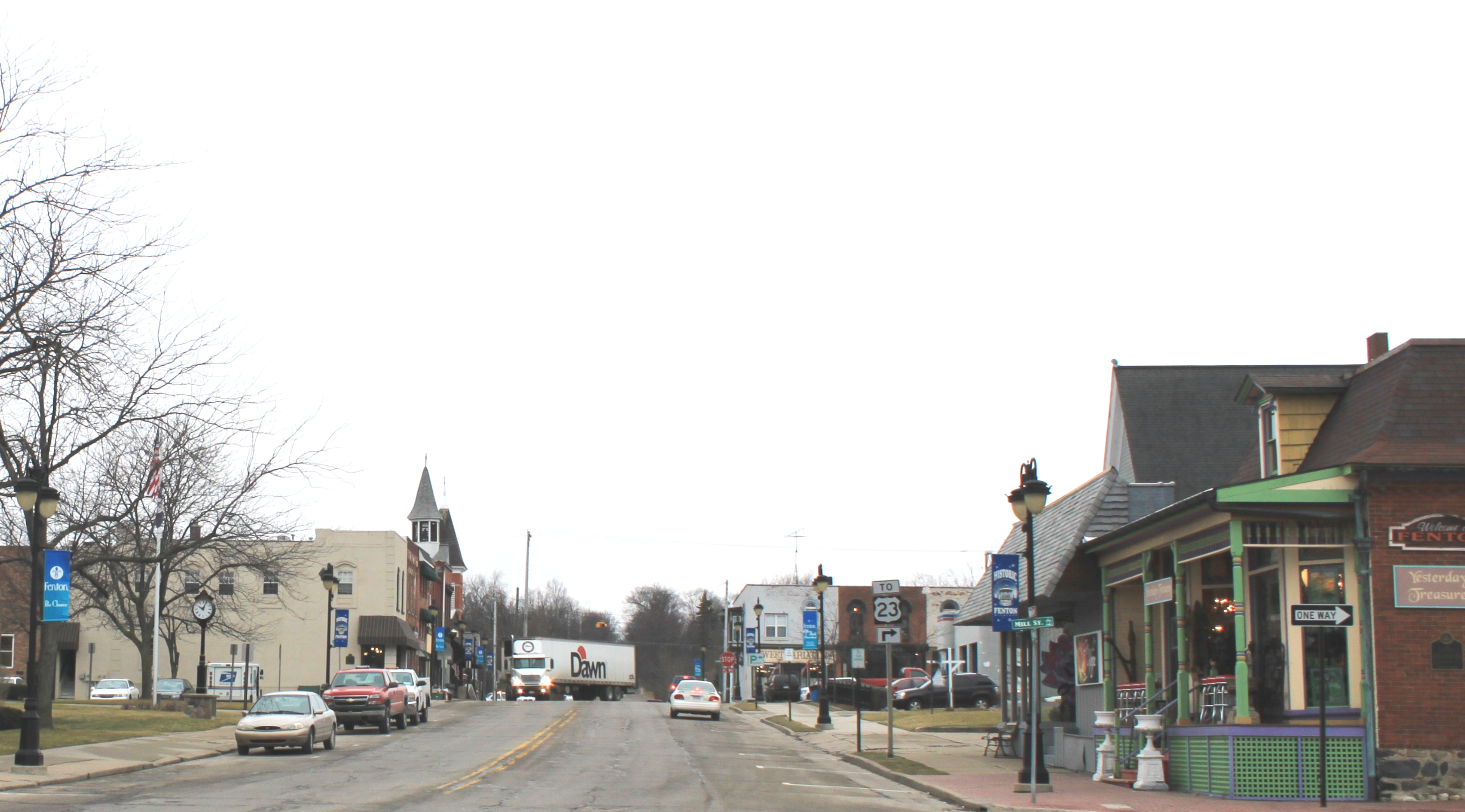 Downtown Fenton, Michigan, Leroy Street.